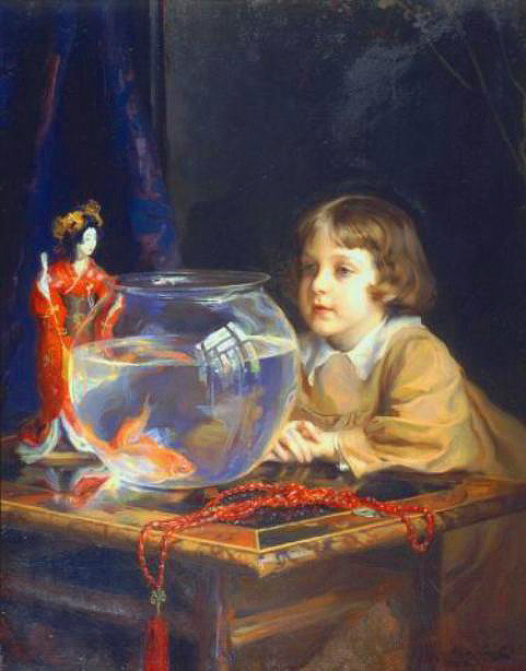 "The Son of the Artist," oil on canvas, by Philip de László. Dated 1917. Image courtesy of The Athenaeum.